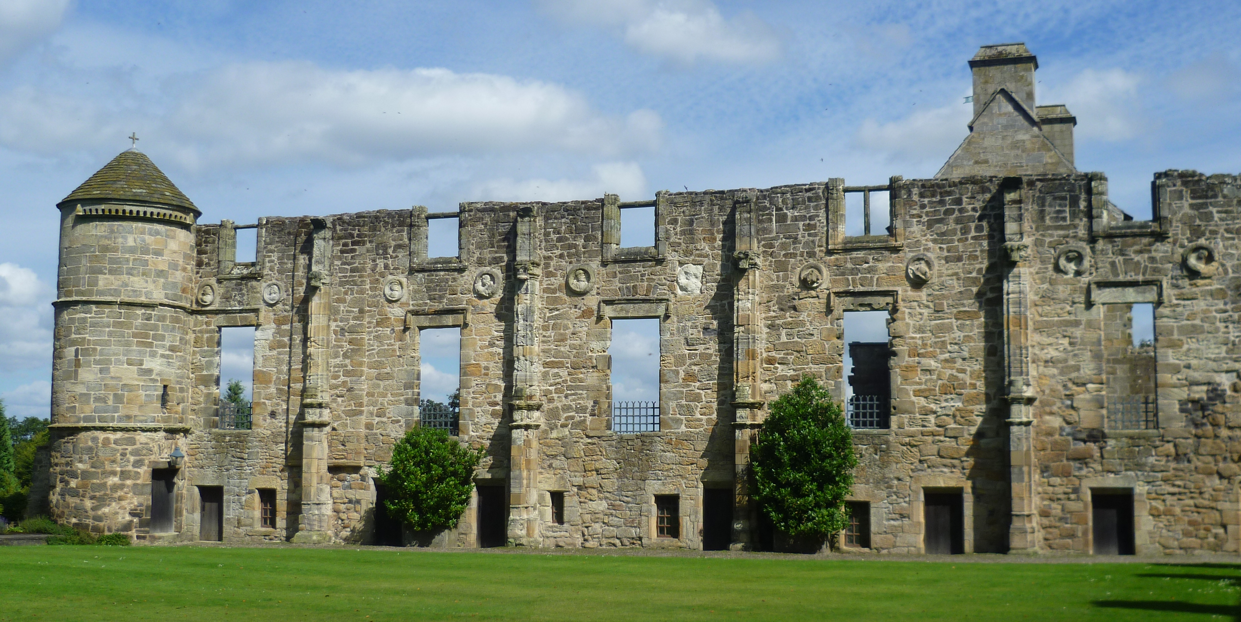 The ruined east range of Falkland Palace, burned down when it was occupied by Cromwell's troops in 1654.